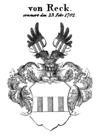 Coat of Arms of the Von Reck family, Prussia